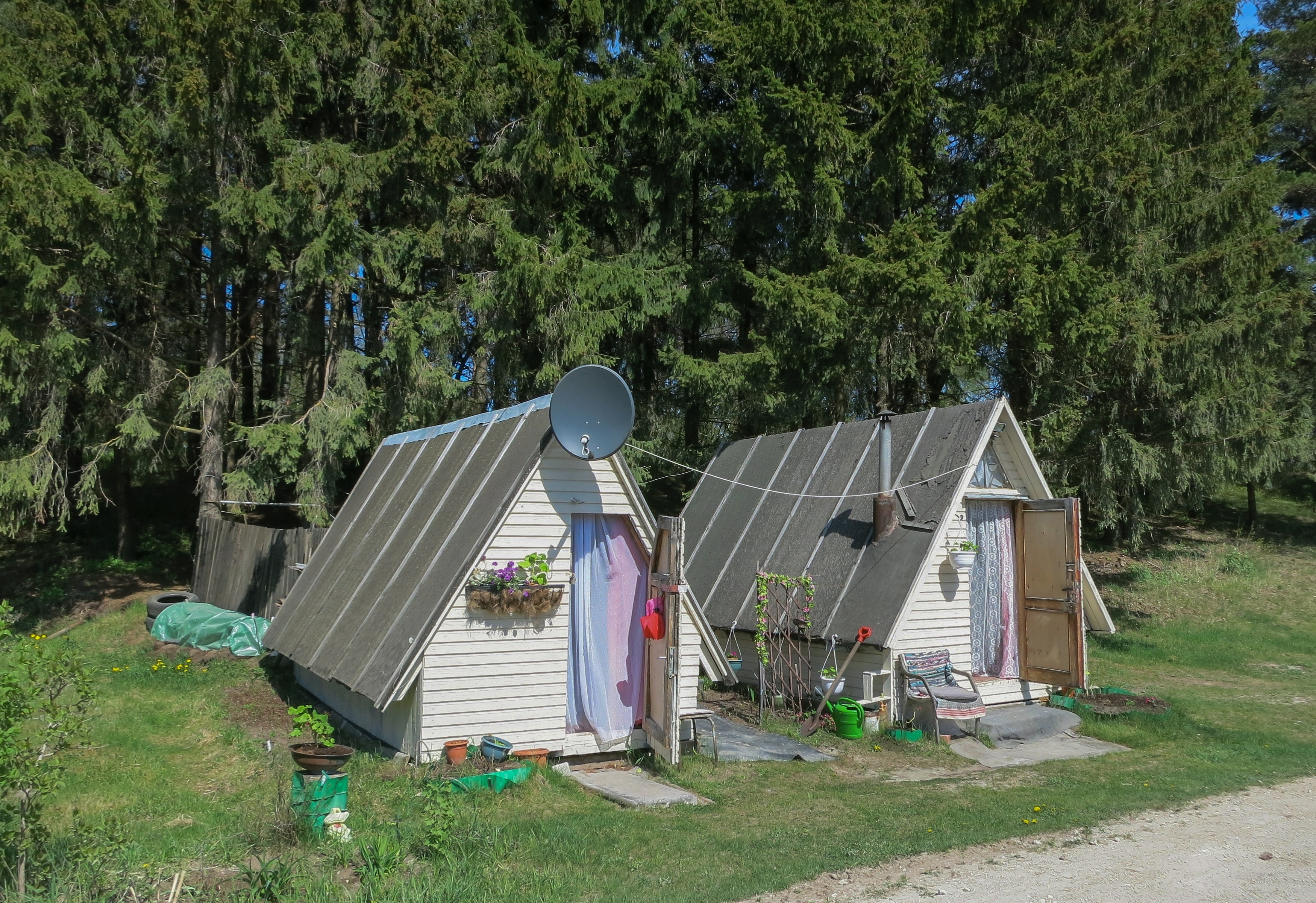 Russian-style cottages in Ida-Viru County, Estonia. During Soviet Era, many people from Russia and other East Slavic countries migrated to Estonia, especially to this Estonian county.